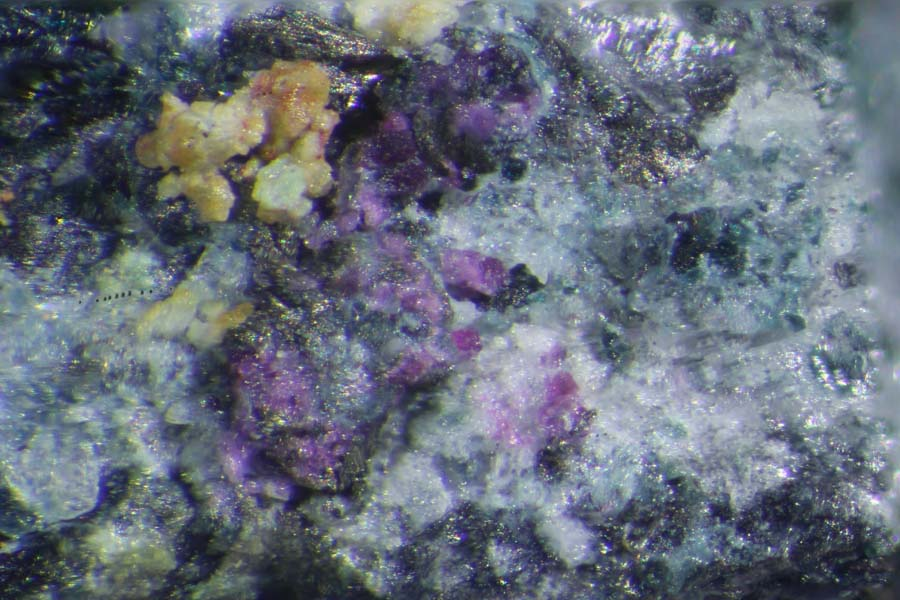 Putnisite, from Polar Bear Peninsula, Lake Cowan, Dundas Shire, Western Australia, Australia